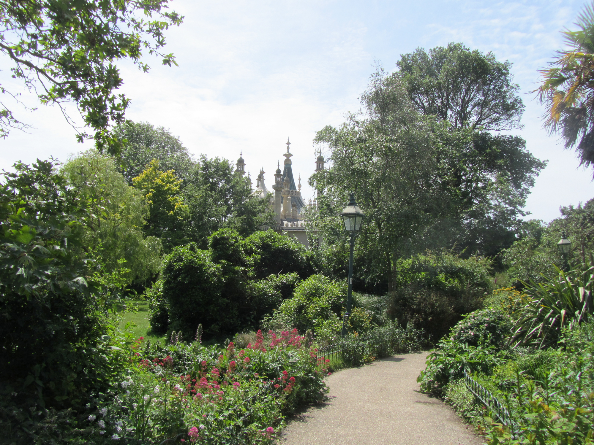 The Royal Pavilion and surrounding gardens in Brighton, England